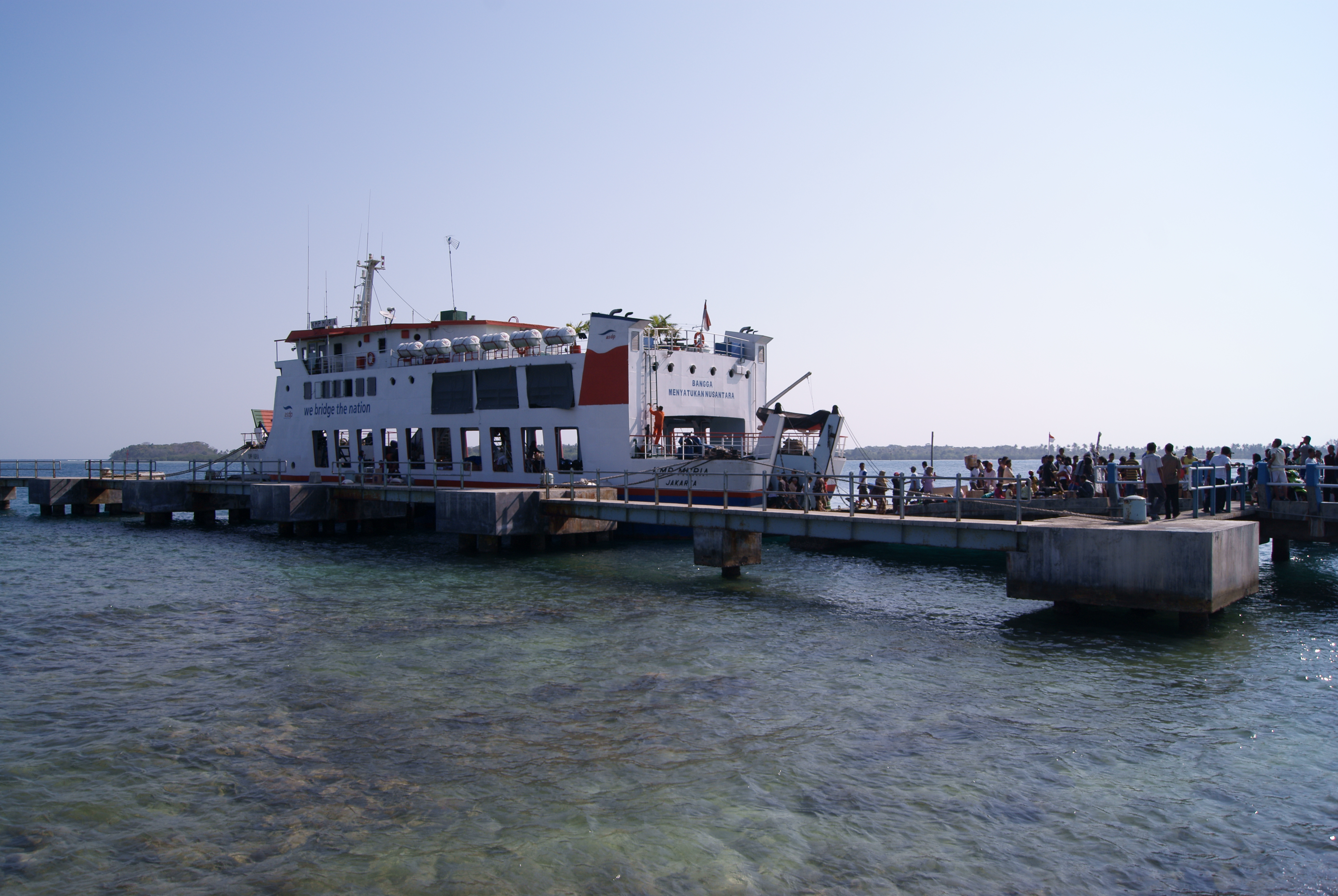 KMP Muria, Port of Karimun Jawa, Central Java, Indonesia.